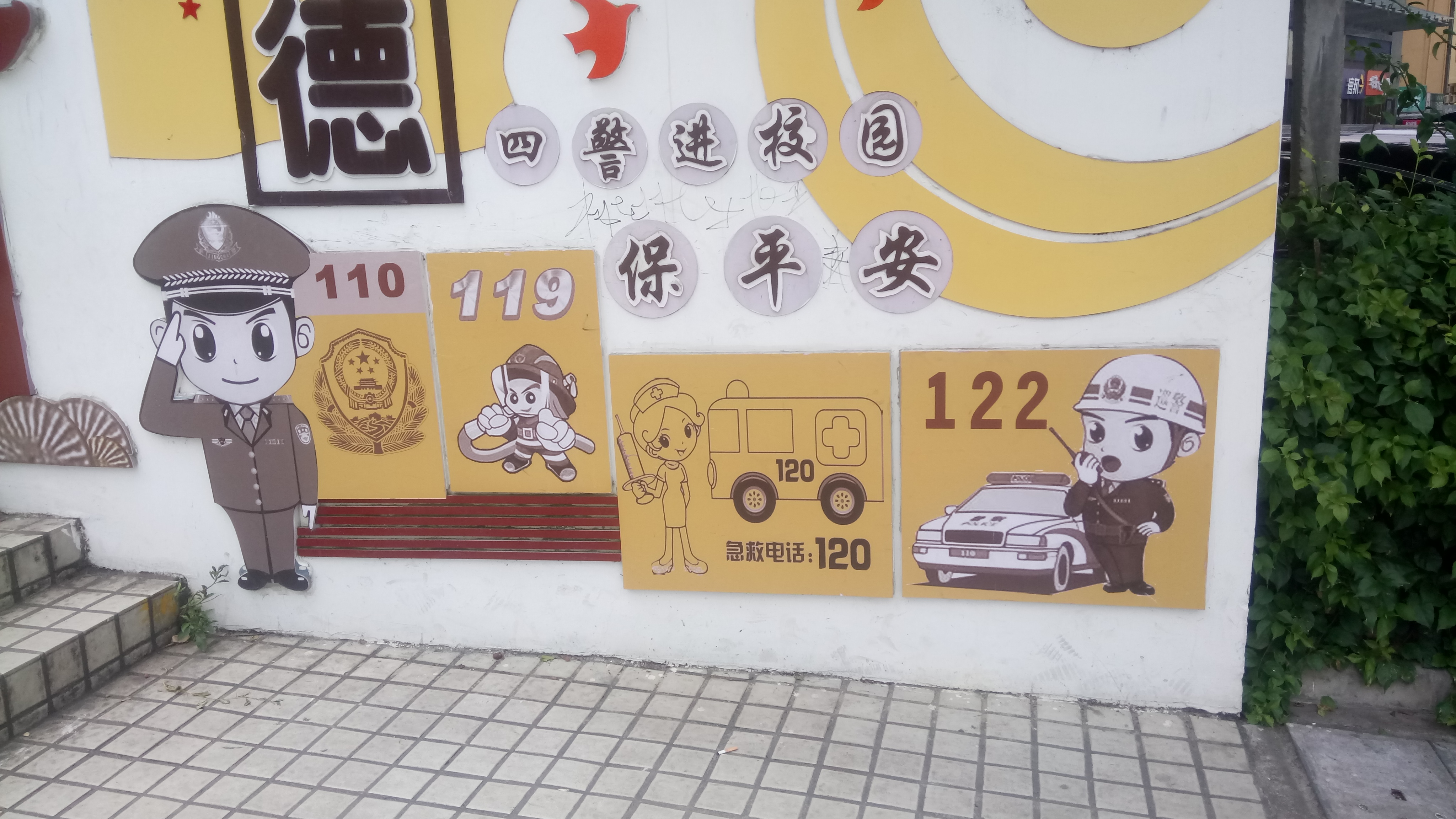 Emergency services mural at the main entrance of Tanglang Primary School